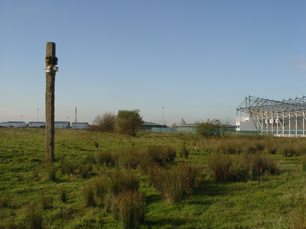 Compartment 1 (known as 'Skylark Grassland') at The Sanctuary Bird Reserve, Pride Park, Derby. This small area of short grass and wet rushes was specially protected by the formation of Derby City's first bird reserve in 2004. The site protects habitat for skylark, meadow pipit, reed bunting, lapwing and other ground-nesting and passage migrants such as wheatear, stonechat, ring ouzel. In 2005 a Dartford warbler spent six weeks on the site, mostly amongst the small bushes in the centre of the photograph - the only other Derbyshire record was made in 1840. The Sanctuary was subsequently declared a Local Nature Reserve by its owners, Derby City Council, in 2006.